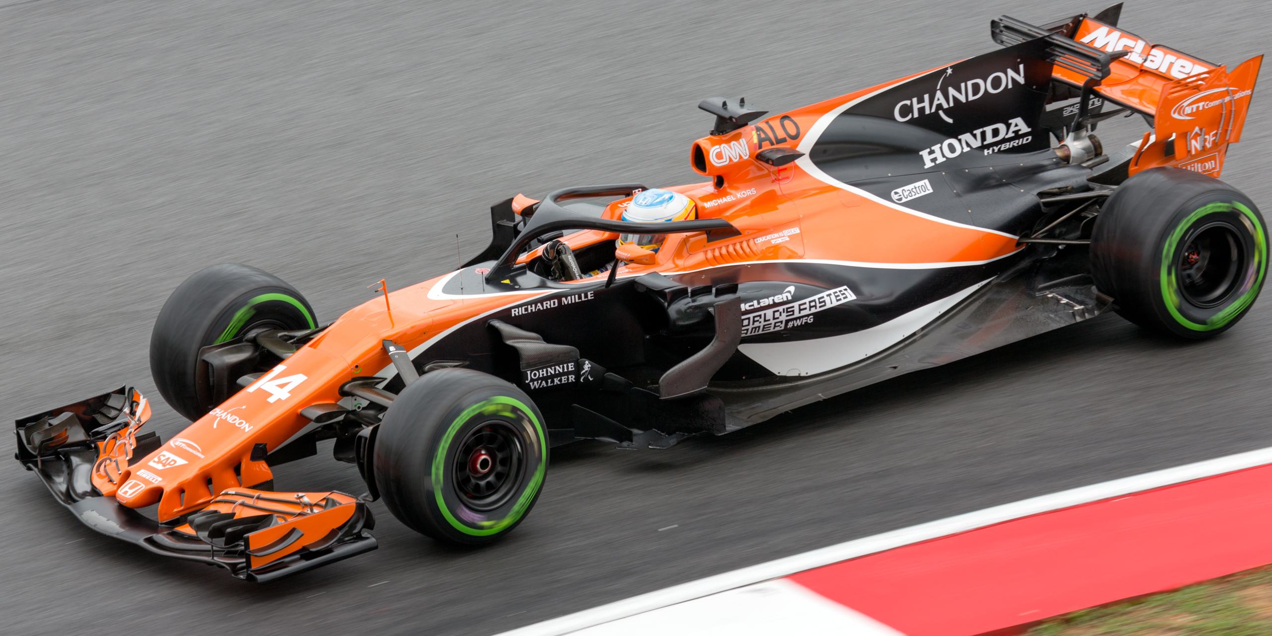 Formula One 2017 Rd.15 Malaysian GP: Fernando Alonso (McLaren)